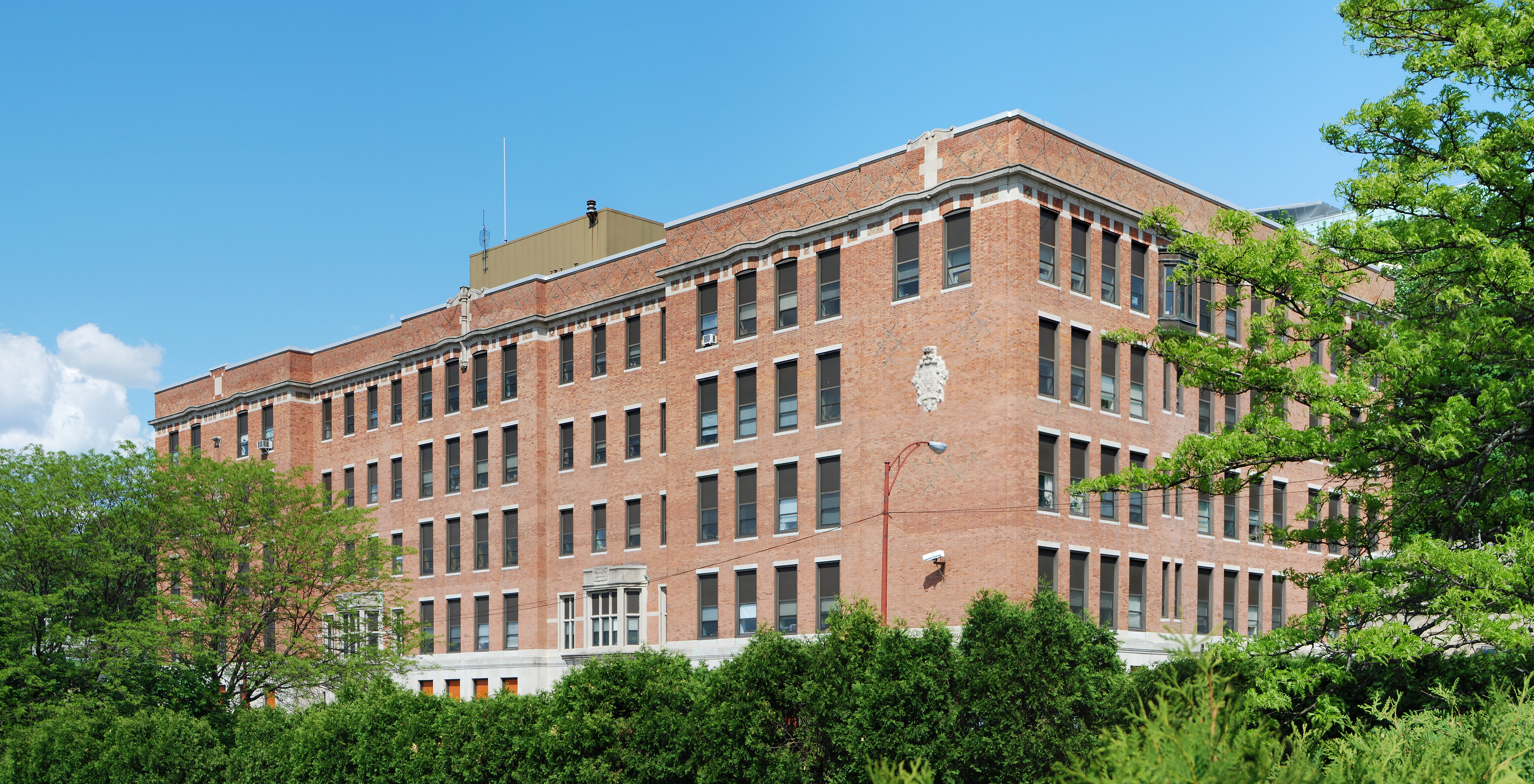 The Ned Pattison Government Center, also known as the Rensselaer County Office Building, which houses the office of the county executive, located on 7th Avenue in Troy, New York. Incidentally, behind this building is the Experimental Media and Performing Arts Center on the campus of Rensselaer Polytechnic Institute.